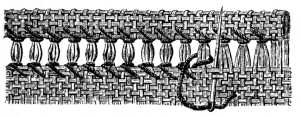 Illustration for section x3 in Encyclopedia of Needlework. Fig. 57 Ladder Hem-stitch